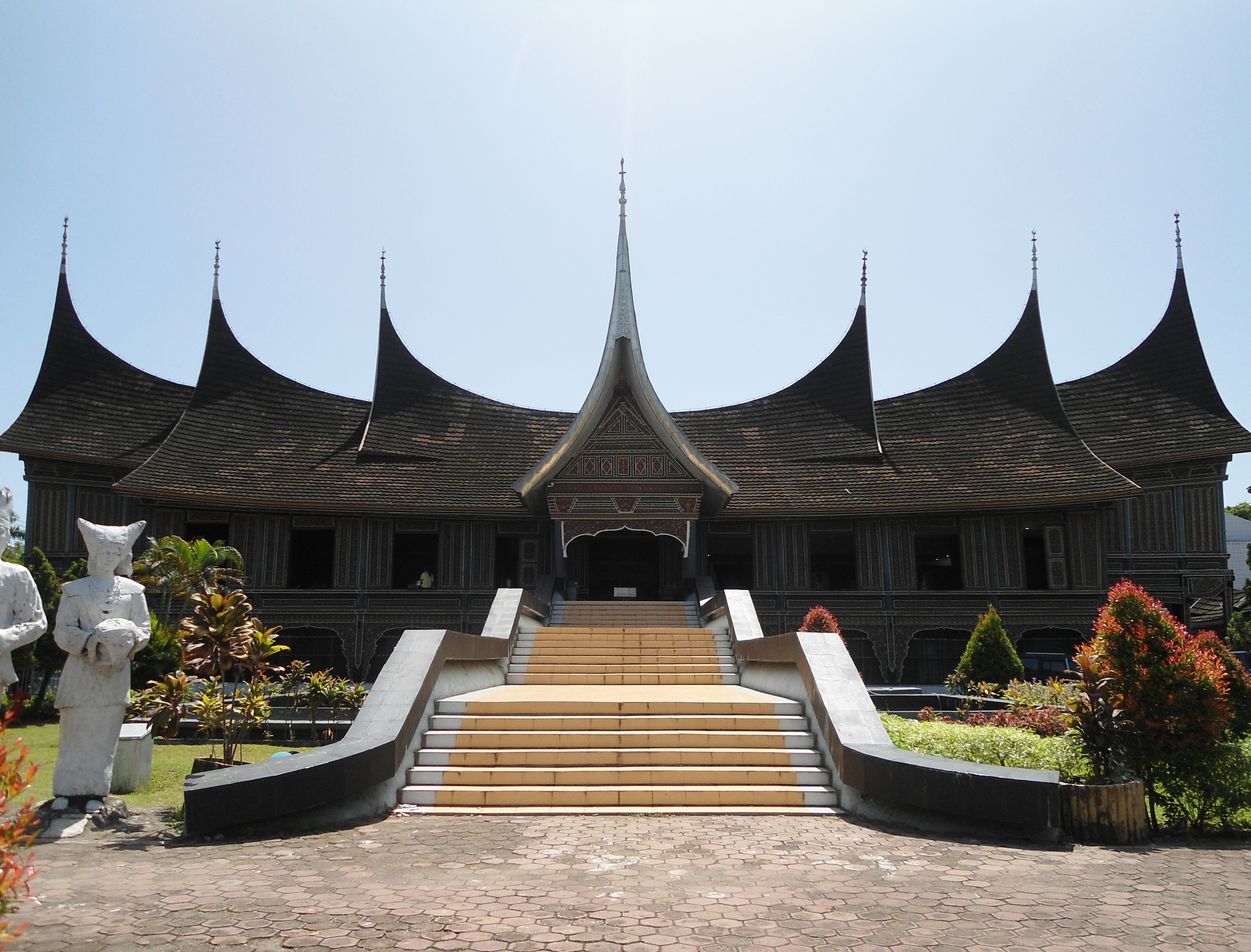 Adityawarman Museum